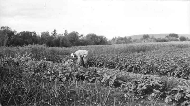 Ellis Borden in his garden on the shores of Swan Lake, inside the British Columbia border circa 1911.